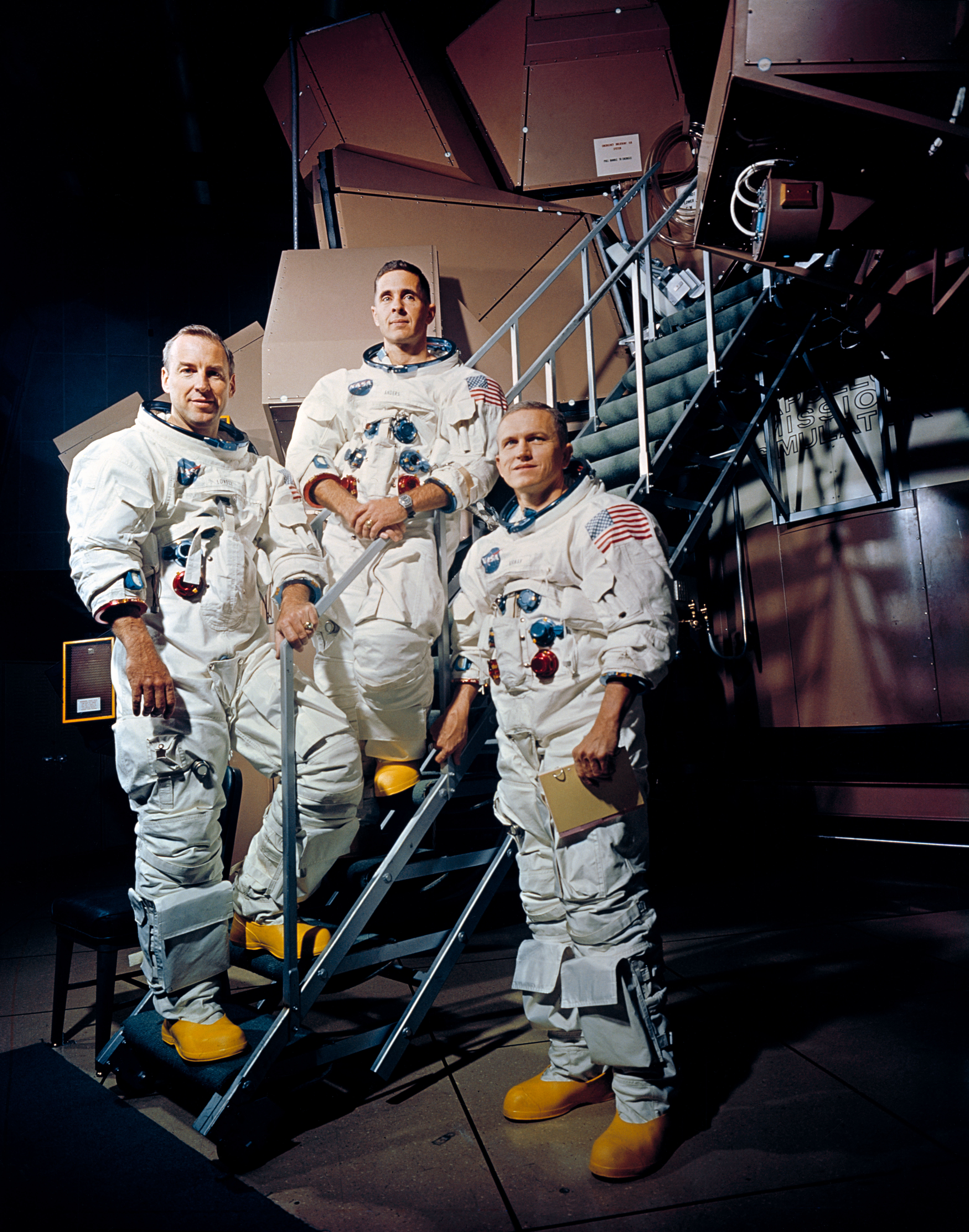 Apollo 8 crew is photographed posing on a Kennedy Space Center (KSC) simulator in their space suits. From left to right are: James A. Lovell Jr., William A. Anders, and Frank Borman.